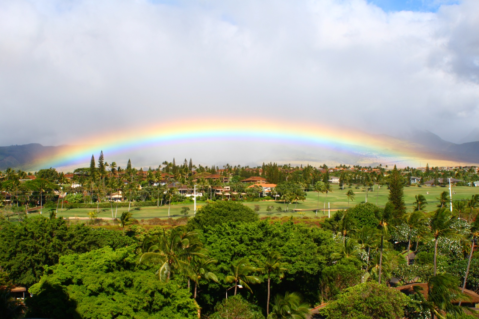 I can't remember when I have ever seen a rainbow like this. This was the view one afternoon from our hotel room balcony at The Royal Lahaina Hotel on Kaanapali Beach, Maui, Hawaii.